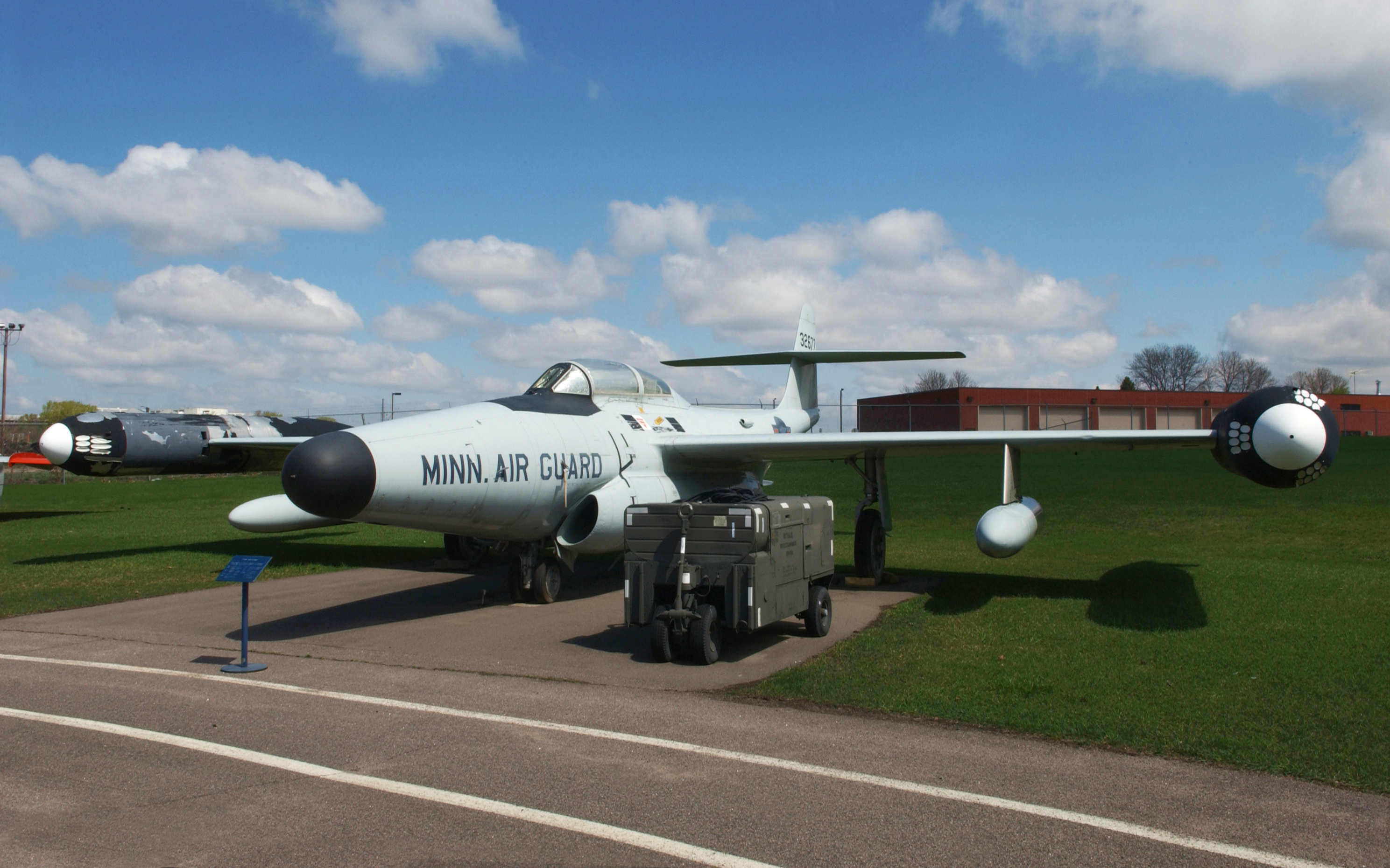 A former Minnesota Air National Guard Northrop F-89H Scorpion on display at Minneapolis/St. Paul International Airport in St. Paul, Minnesota (USA).